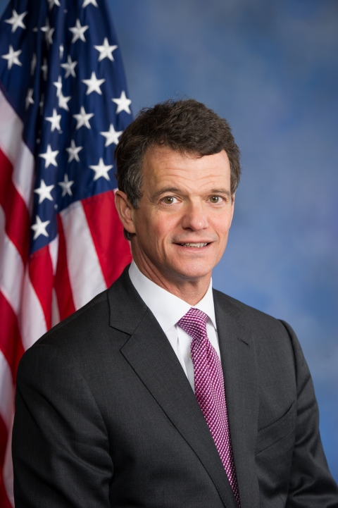 Dave Trott official congressional portrait, 114th Congress